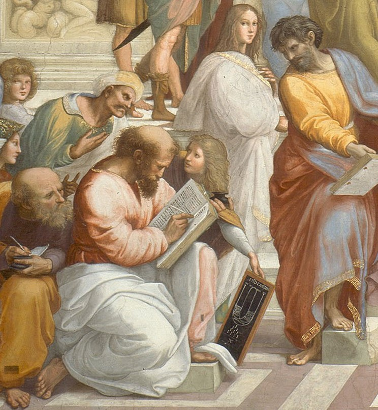 This image is a cropped version of Raphael's fresco The School of Athens, showing the figure of Pythagoras.